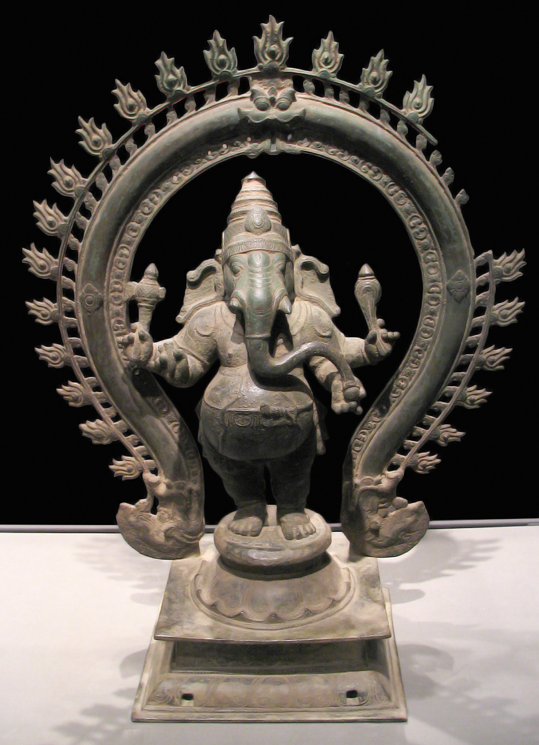 Small statue of Ganesha from the Asian Art Museum in San Francisco